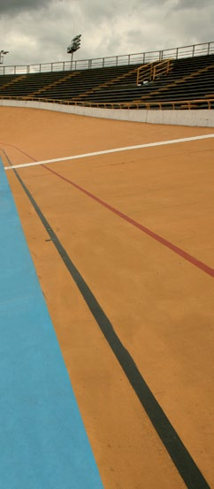 track cycling